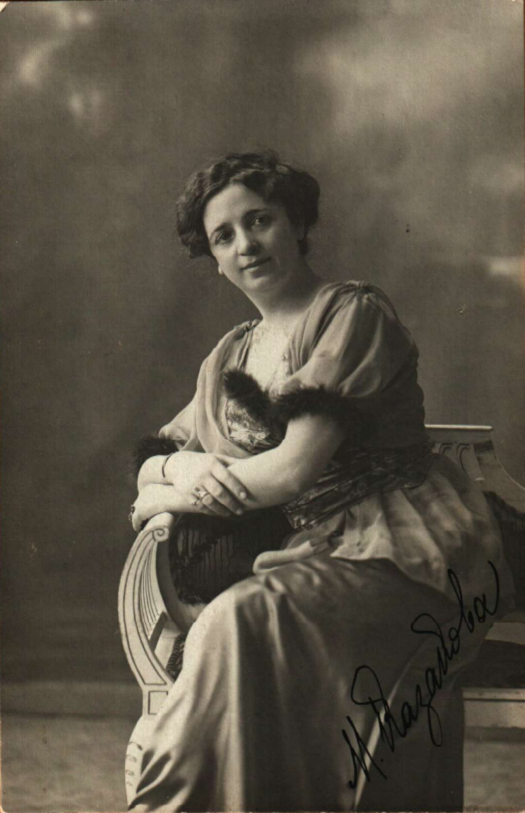 Bulgarian actress Maria Kazakova (1877-1943)